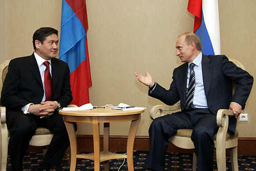 ASTANA. At a meeting with President of Mongolia Nambaryn Enkhbayar.